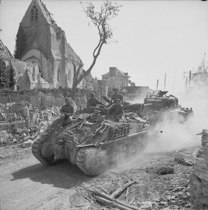 Tank Recovery in Bourguébus The town of Bourguébus, five miles south of Caen on the road to Falaise was cleared of the enemy by British infantry and tanks. Picture shows: A Sherman Recovery tank towing a crippled Sherman through the ruined town.